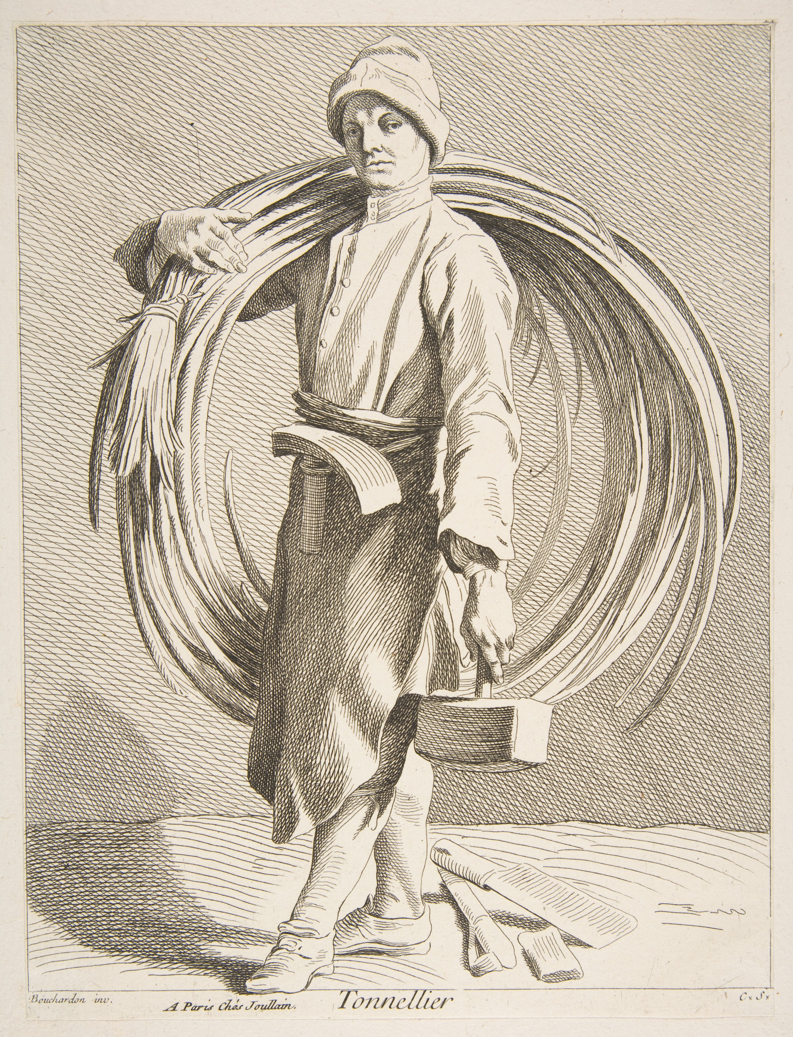 Print; Prints